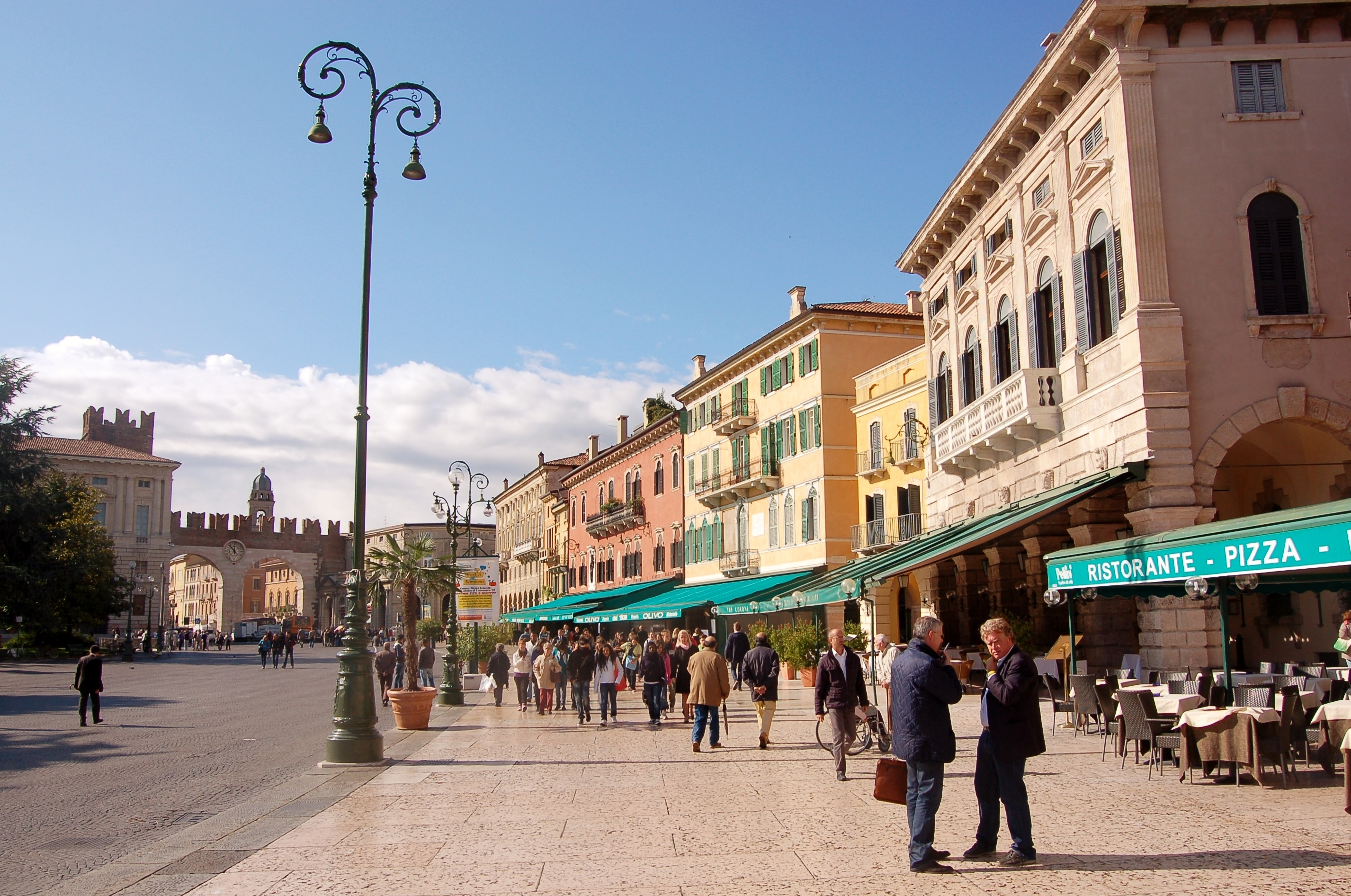 View of Piazza Bra in Verona, Italy.